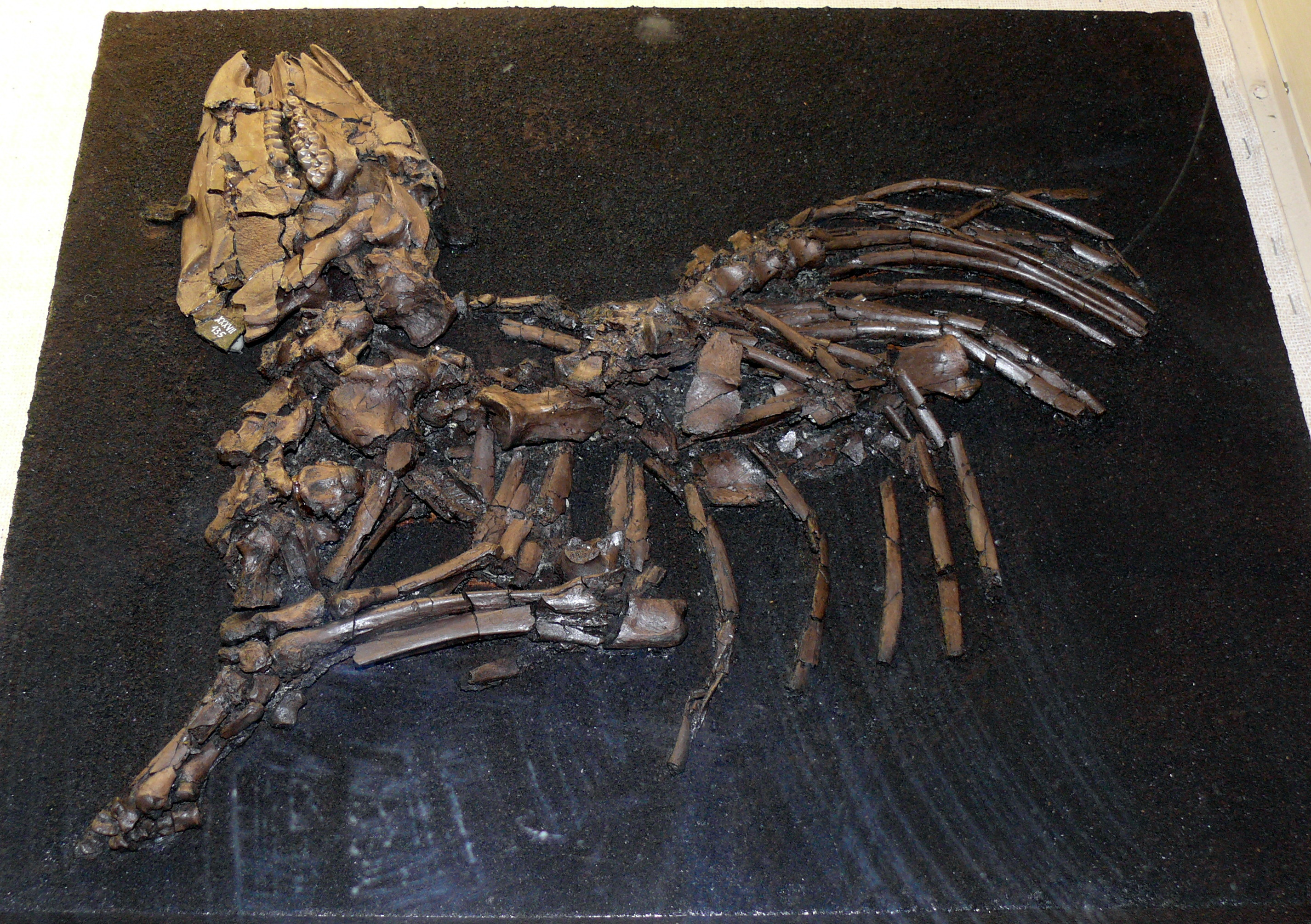 Lophiodon, an extinct tapir relative from the Eocene deposits of the Geiseltal fossil site, Saxony Anhalt, Central Germany.